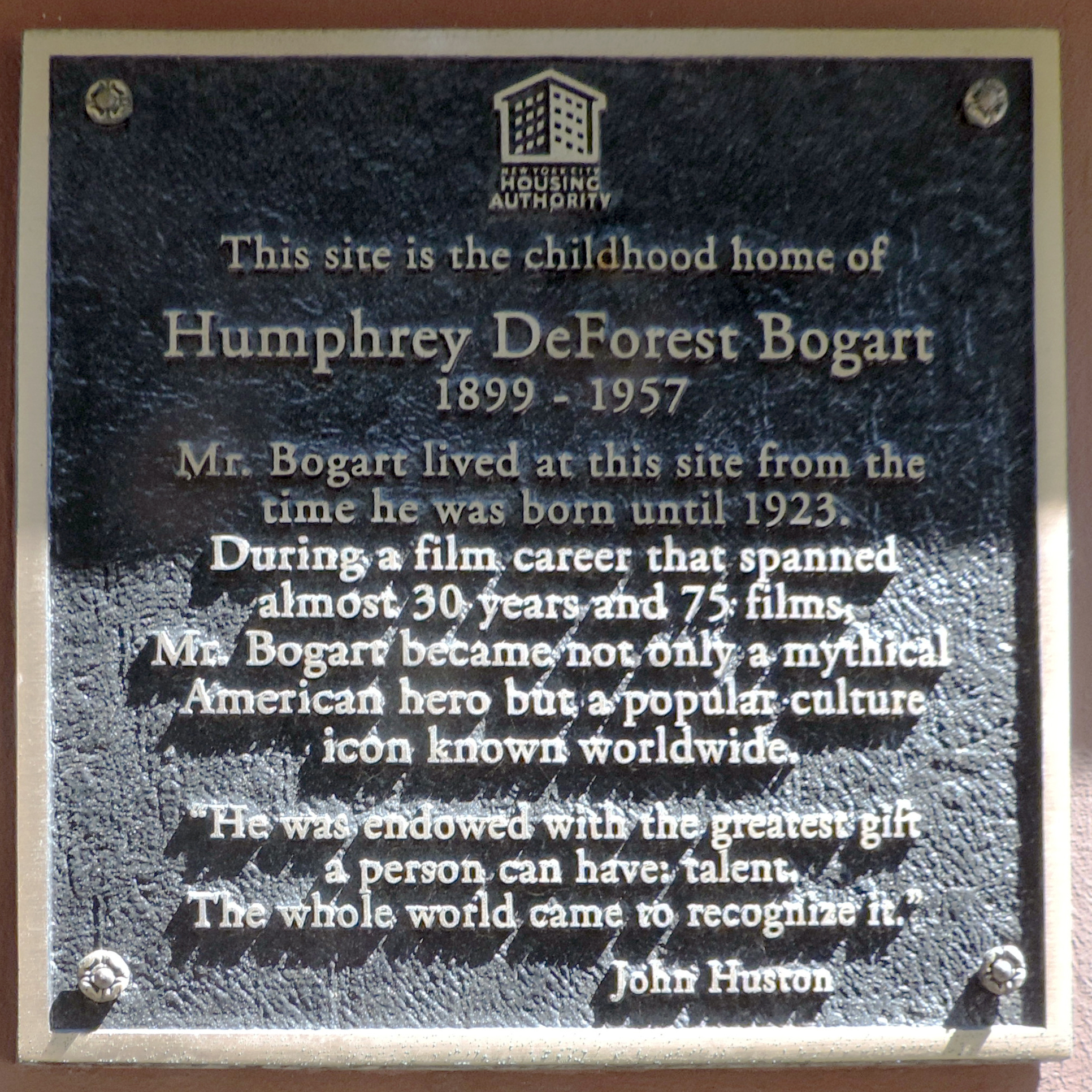 Looking north at birthplace plaque. Drat; how did I miss getting a pic of the building?